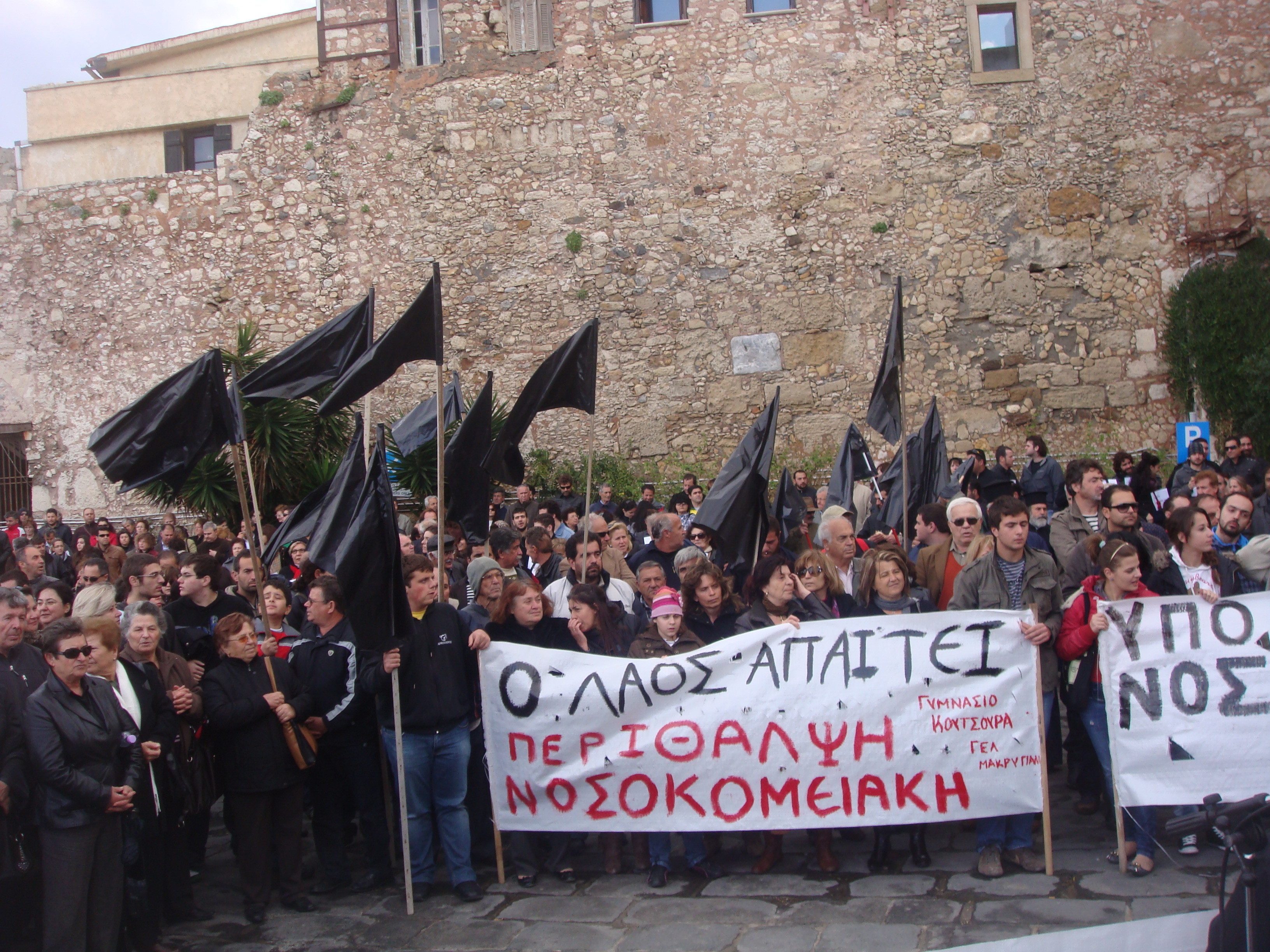 People from Ierapetra defend their hospital by marching in Iraclion, Jan. 25, 2011. The central government decided to close down the only hospital in the region, sparking widespread protests.